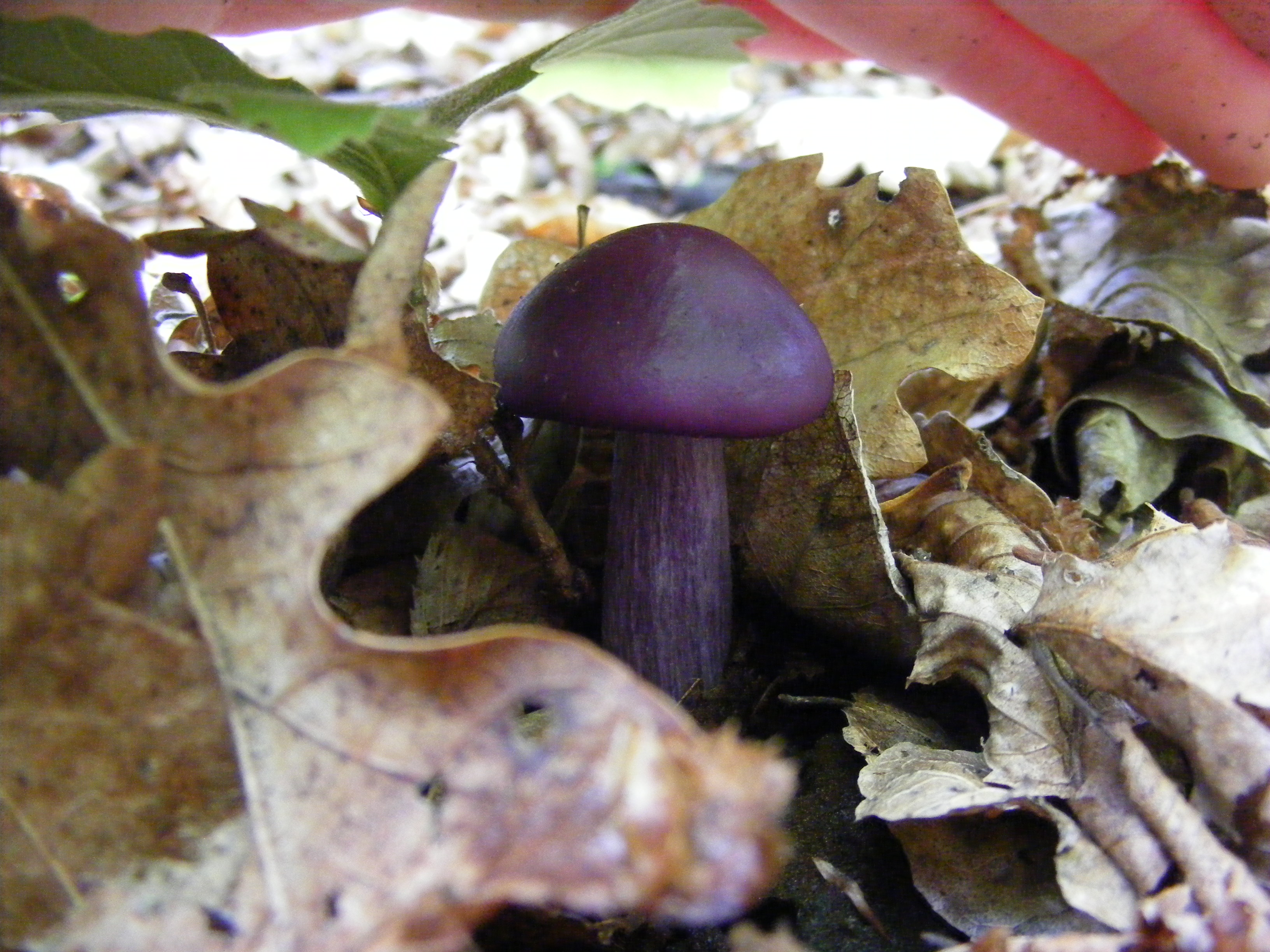 Lepista nuda